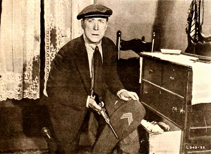 Still from the American drama film The Cradle of Courage (1920) with William S. Hart, on page 4810 of the June 12, 1920 Motion Picture News.